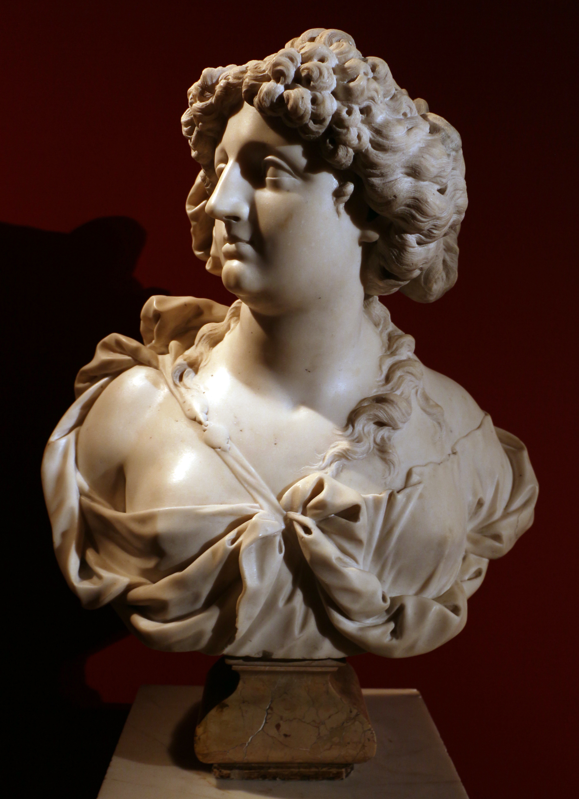 Fondazione Cavallini Sgarbi, on exhibition in Osimo (2016)